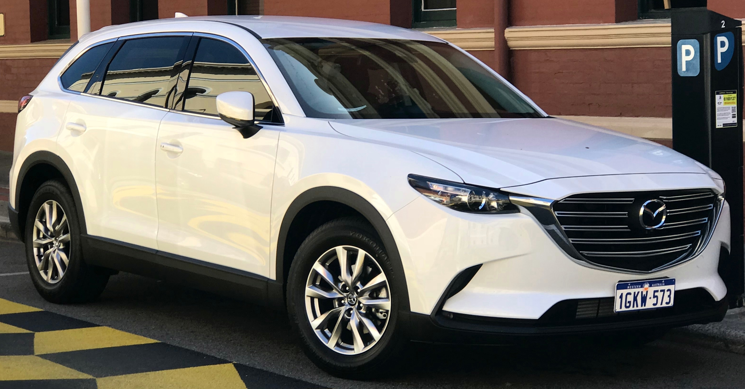 2017 Mazda CX-9 (TC) Touring wagon. Photographed in Fremantle, Western Australia, Australia.